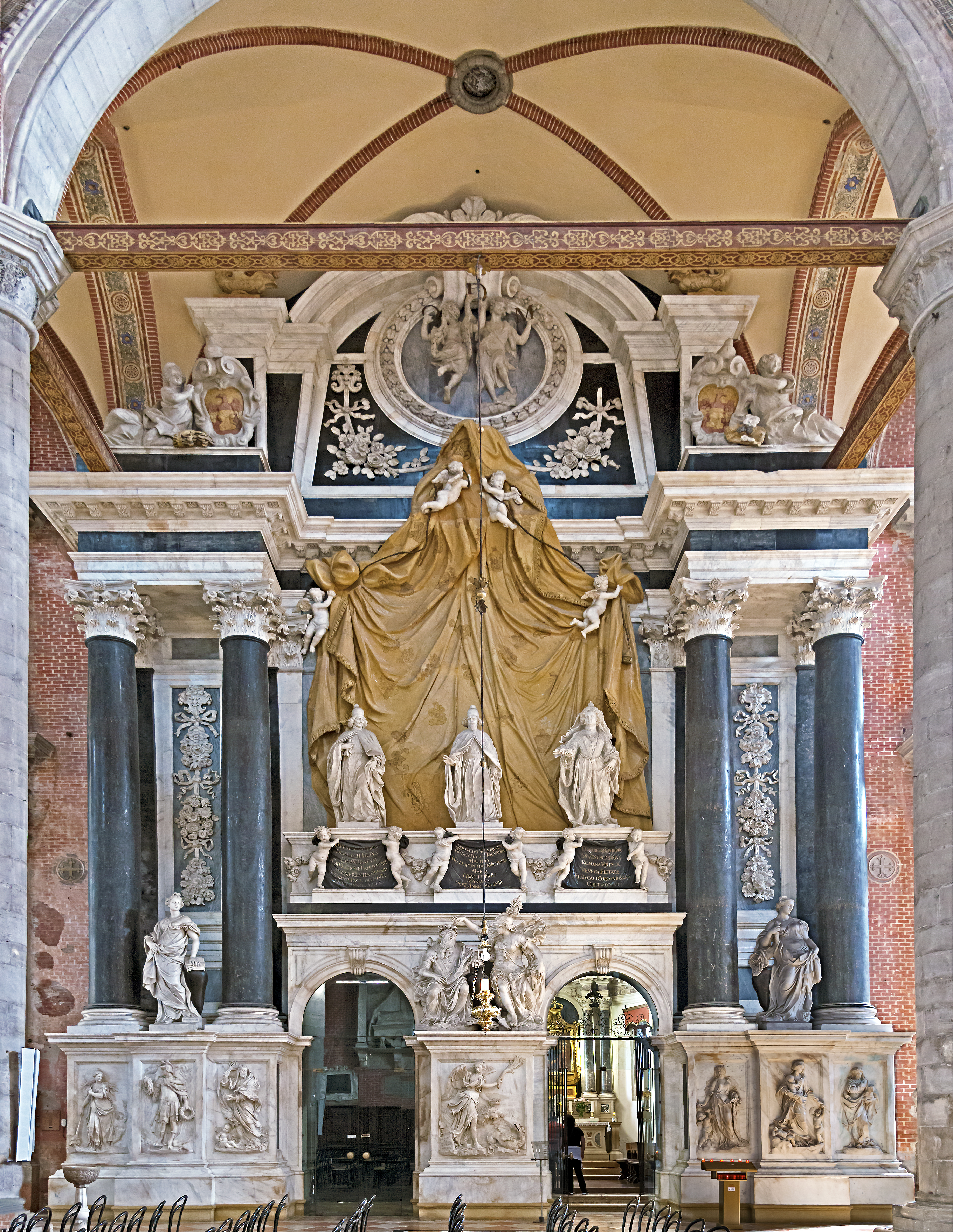 Santi Giovanni e Paolo in Venice, monument of the Valier family : Bertuccio Valier, Silvestro Valier and his wife Elisabetta Querini by Andrea Tirali.